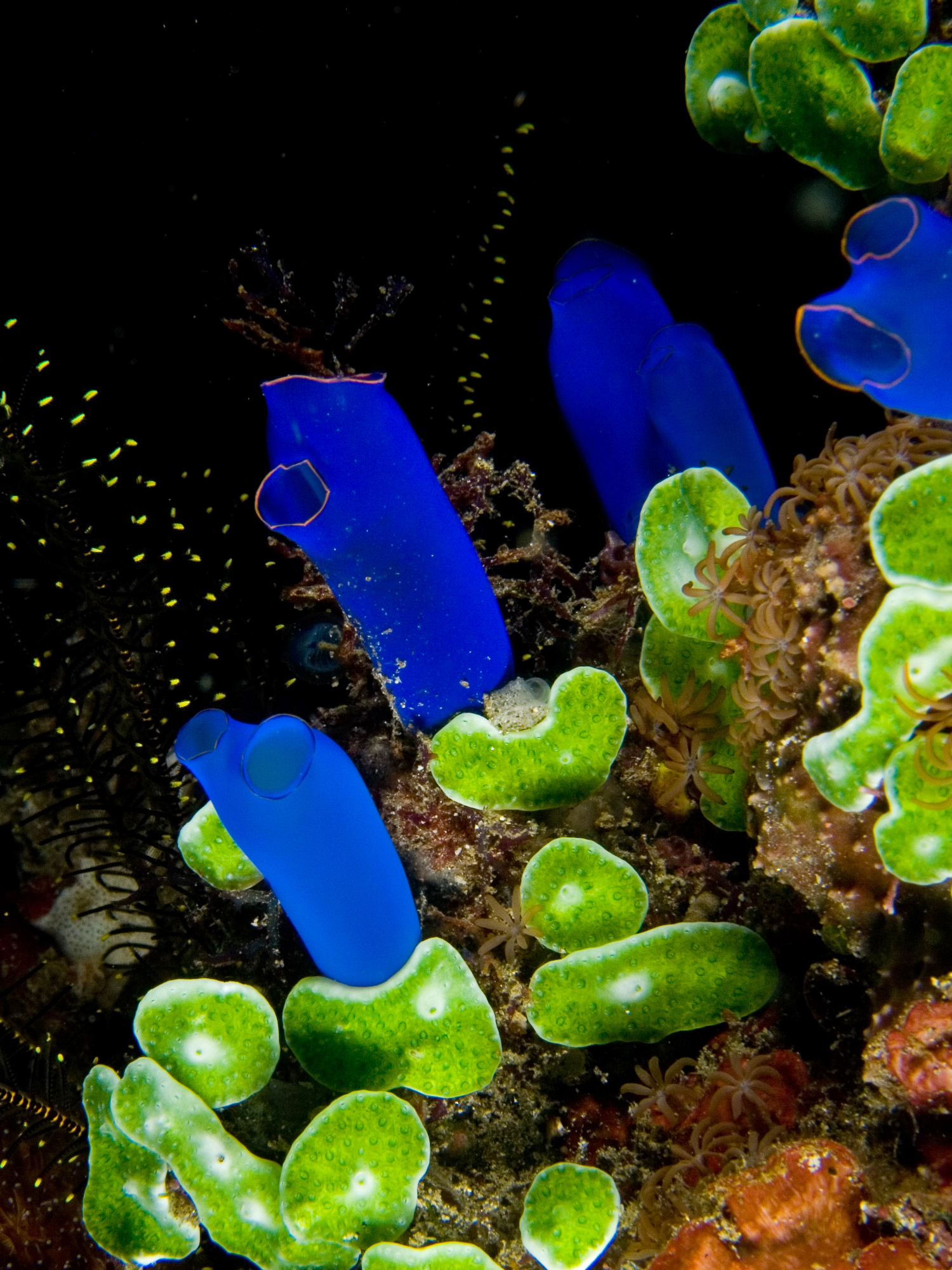 Two ascidian species Diplosoma virens in green and Rhopalaea crassa in blue from East Timor.